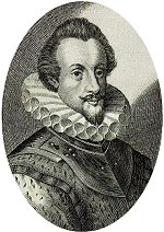 Prínce Manuel of Portugal